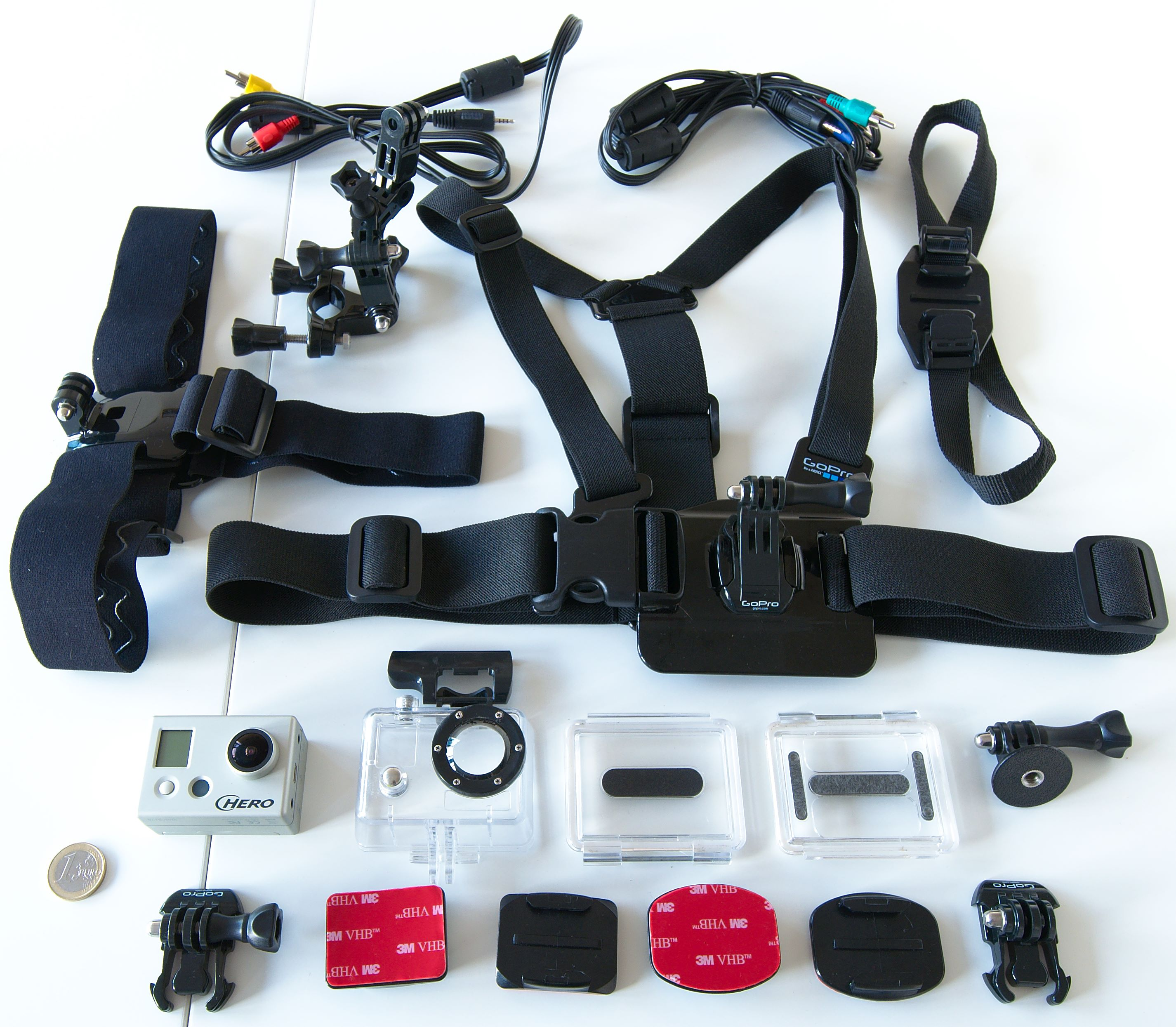 Helmet Kit + Chest Mount + Handlebar Seatpost Mount + Tripod Mount